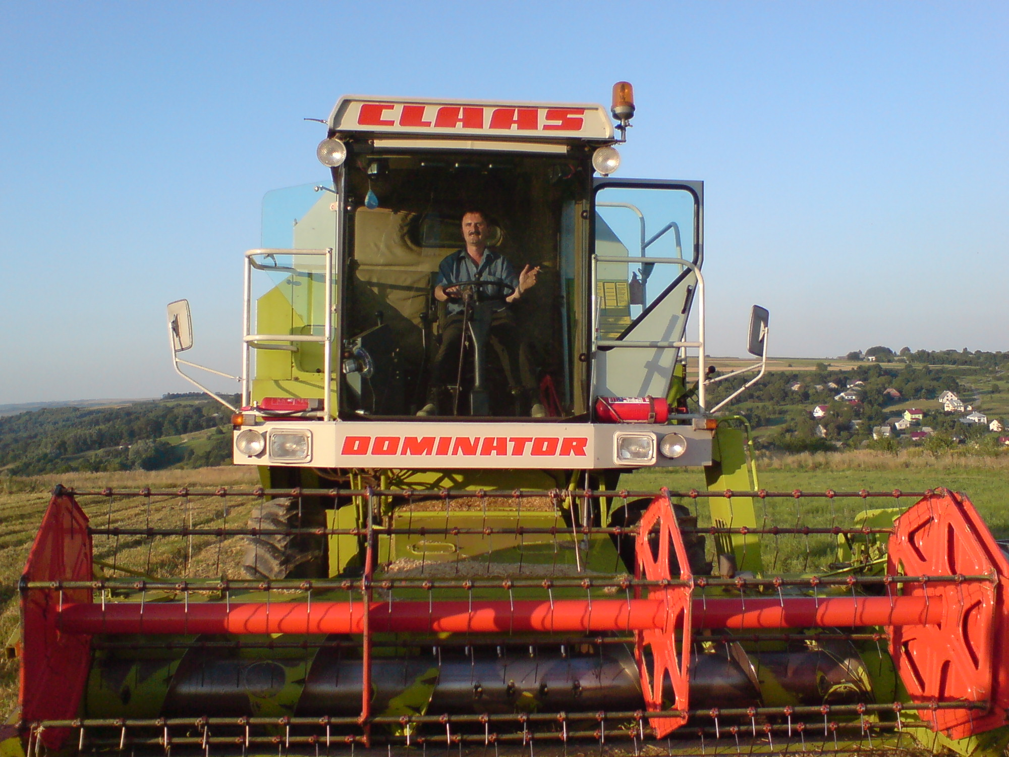 Claas Dominator at harvest in Kąkolówka, Poland